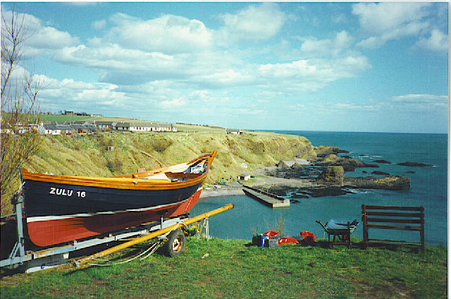 Zulu at Catterline. "Zulus" were a type of open-decked Victorian fishing boat common in the north-east. "Fifies" were the other common type. This one is sitting outside the row of cottages above Catterline Bay - and is named "Zulu". Catterline, once a fishing village, is now an artists' community - famous for Joan Eardley.